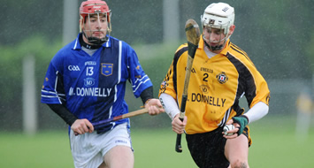 Action from the 2008 Railway Cup hurling semi-final match between Munster and Ulster. Munster's Andrew O'Shaughnessy (left) chasing Ulster's Aaron Graffin.